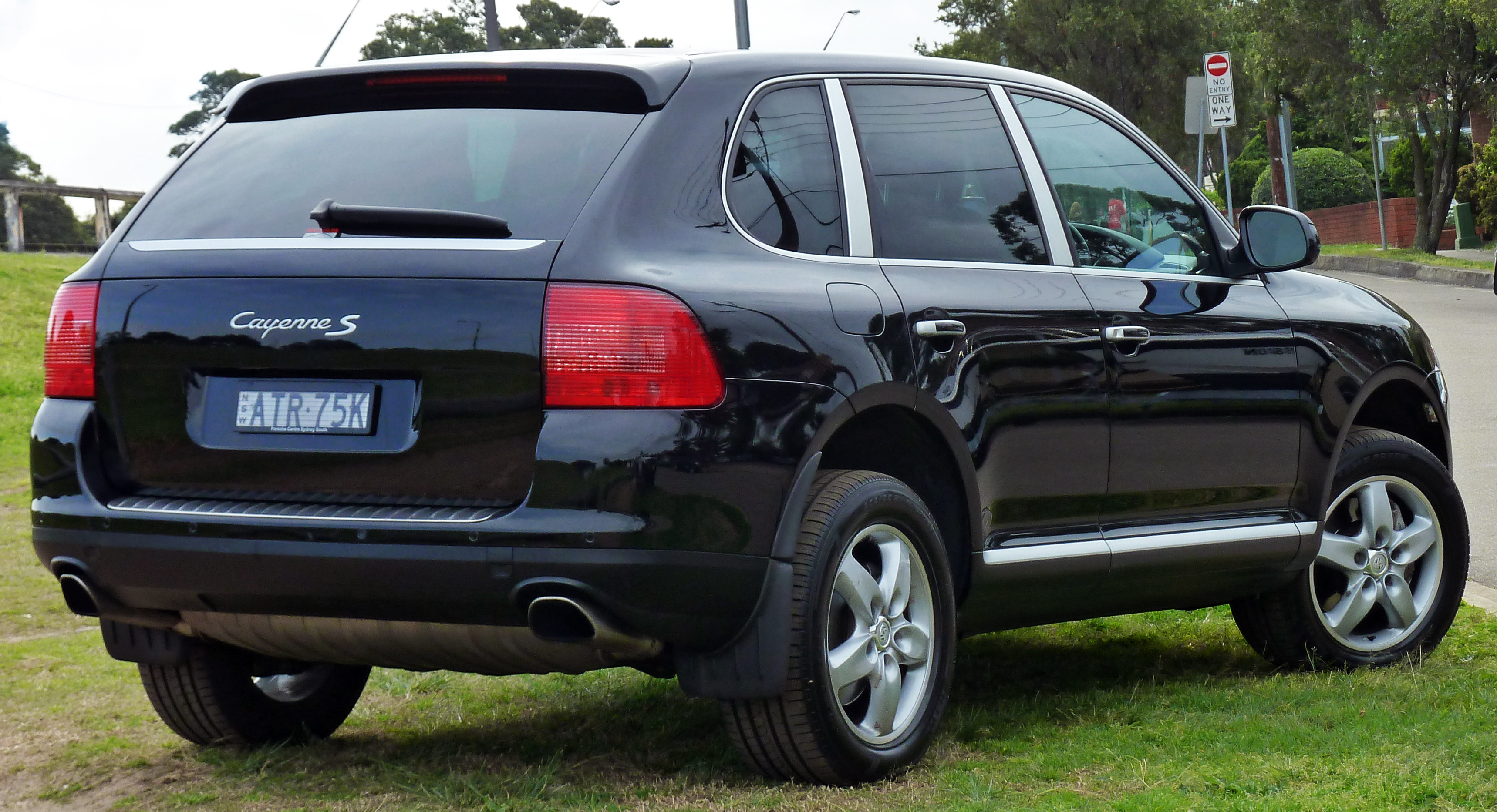 2003–2006 Porsche Cayenne (9PA) S wagon. Photographed in Sans Souci, New South Wales, Australia.